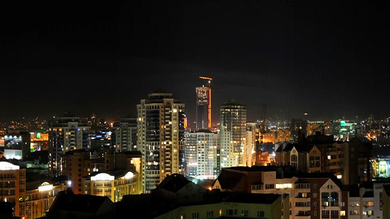 Yekaterinburg at night